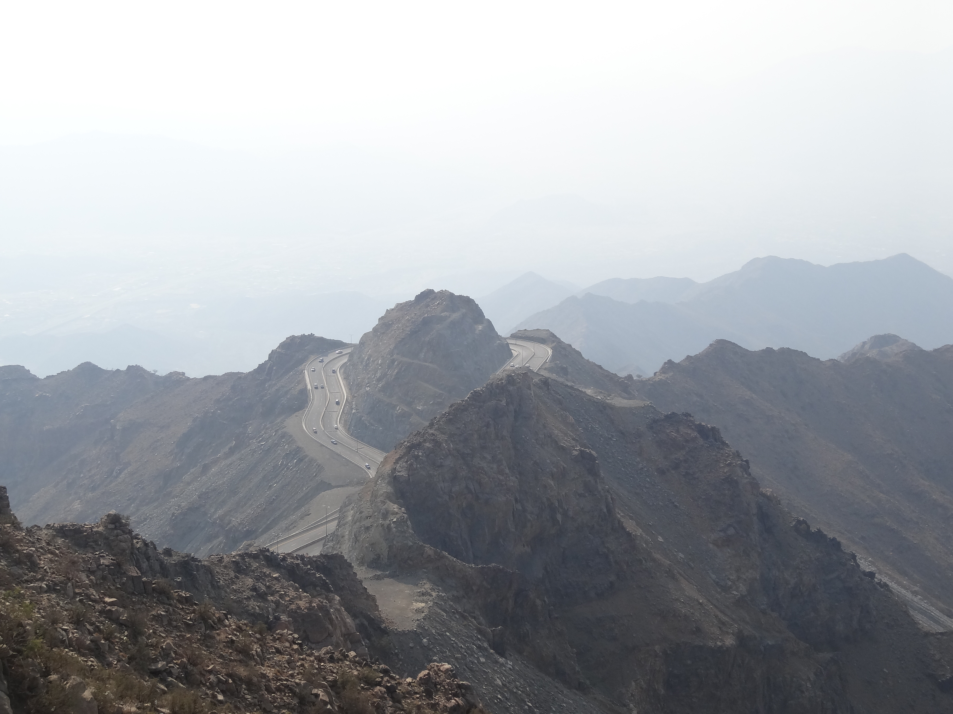 Saudi Mountain Road 2